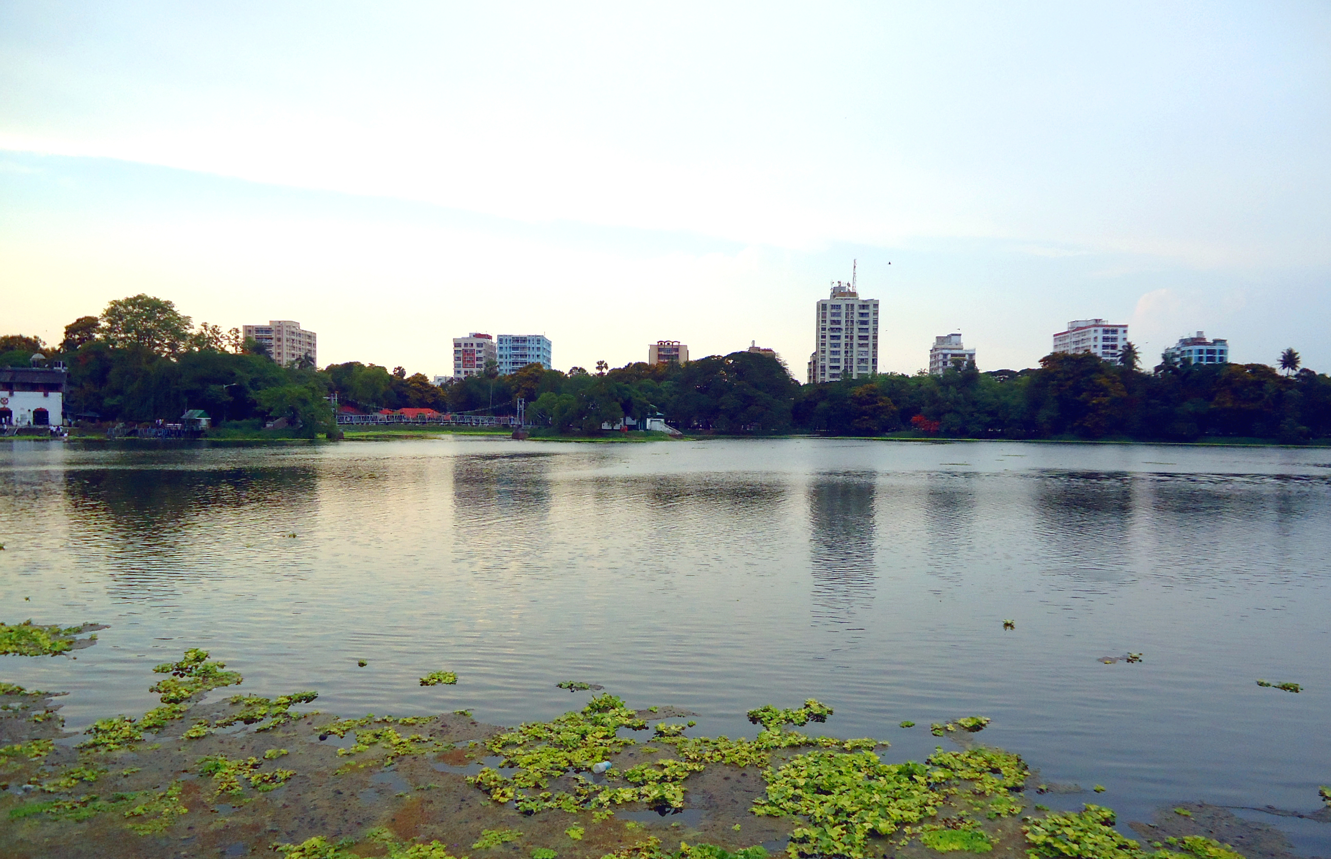 Rabindra Sarovar and Southern Avenue skylines